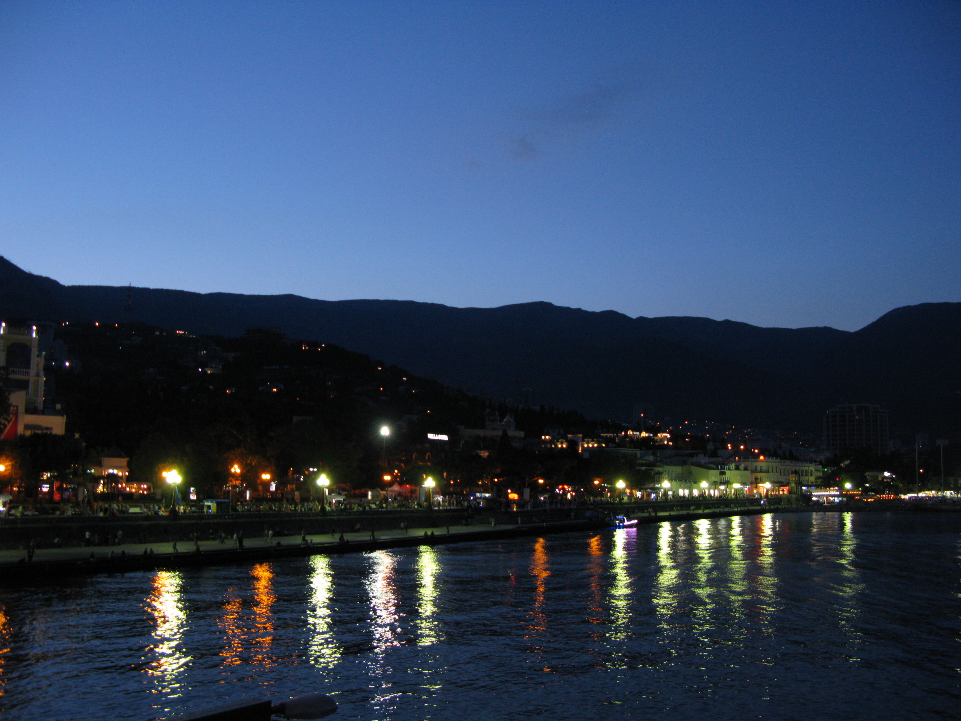 night Yalta